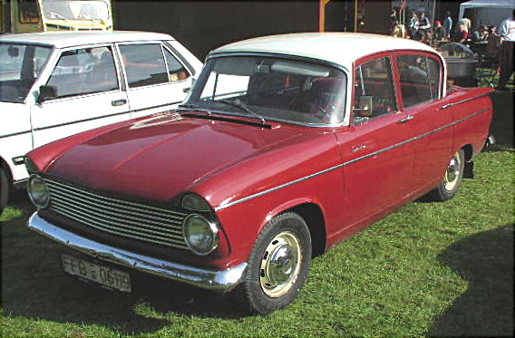 Original description: Hillman Minx Series III; However, this is believed to be a Hillman Super Minx (pre-facelift)